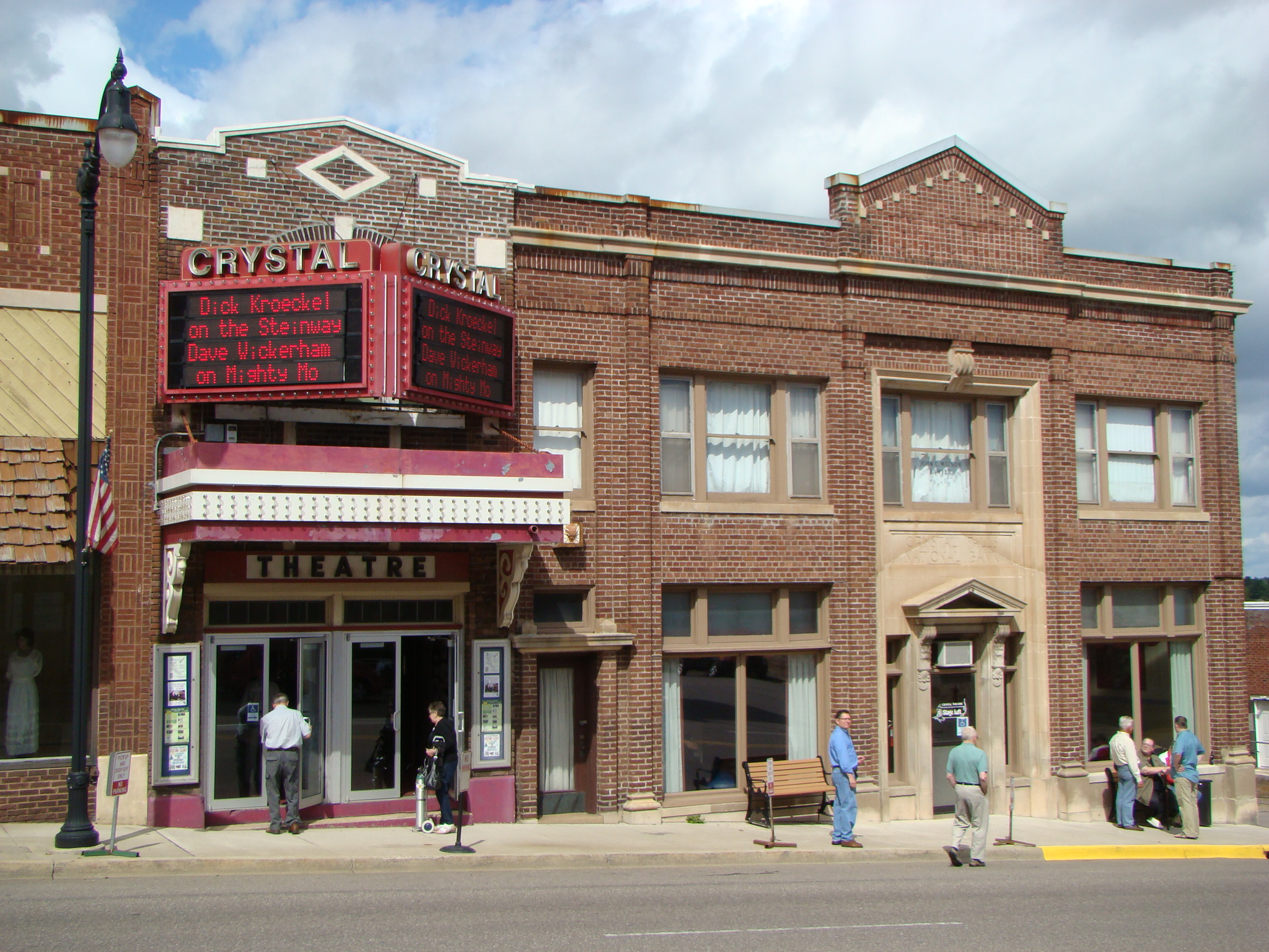 A photograph of the Crystal Theatre, in Crystal Falls, Michigan, USA